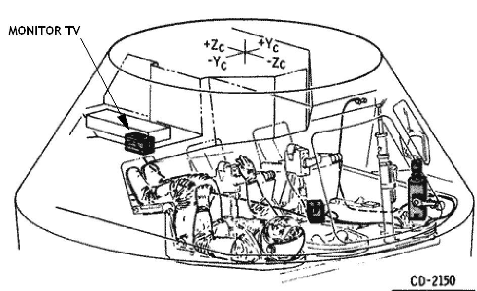 A TV monitor was used with color TV camera for astronaut viewing of TV rendezvous and docking operations.